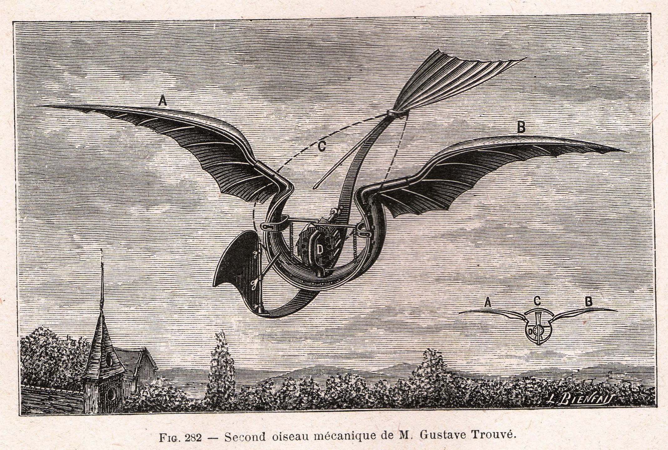 Oiseau mécanique